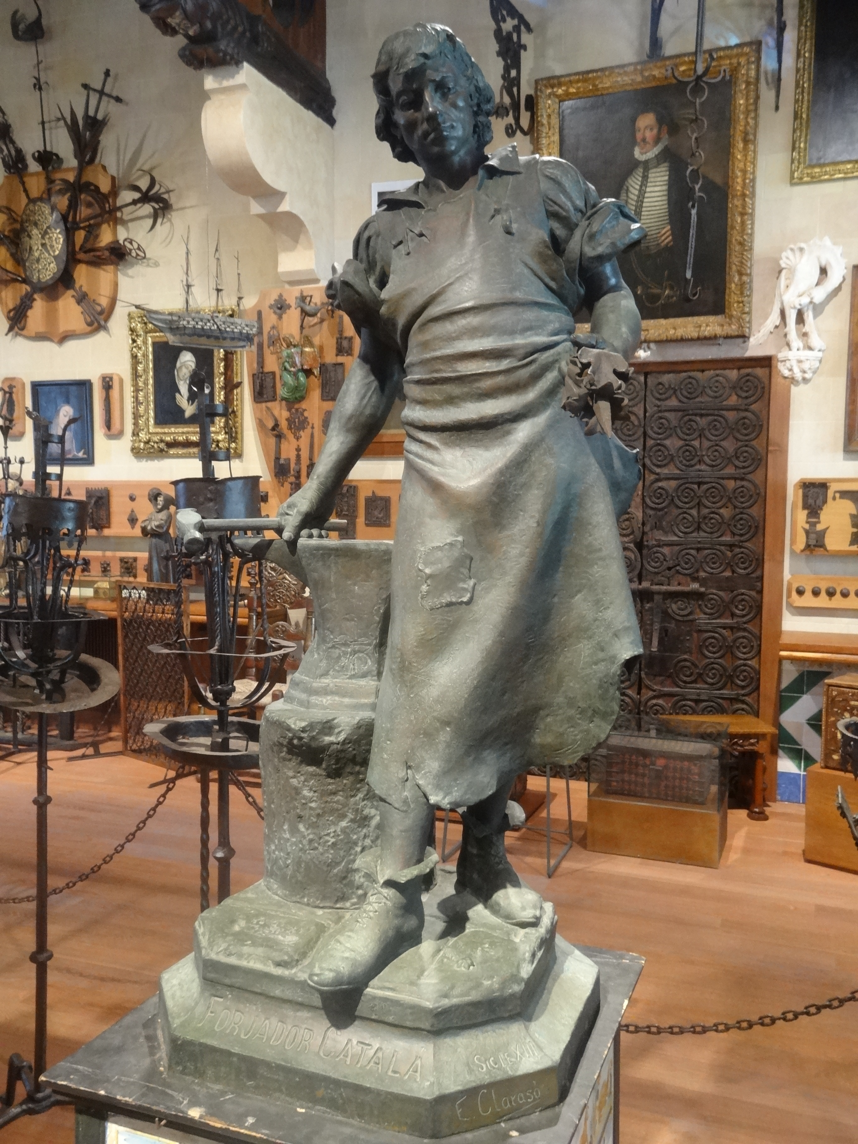 Upper floor of Cau Ferrat Museum, in Sitges.